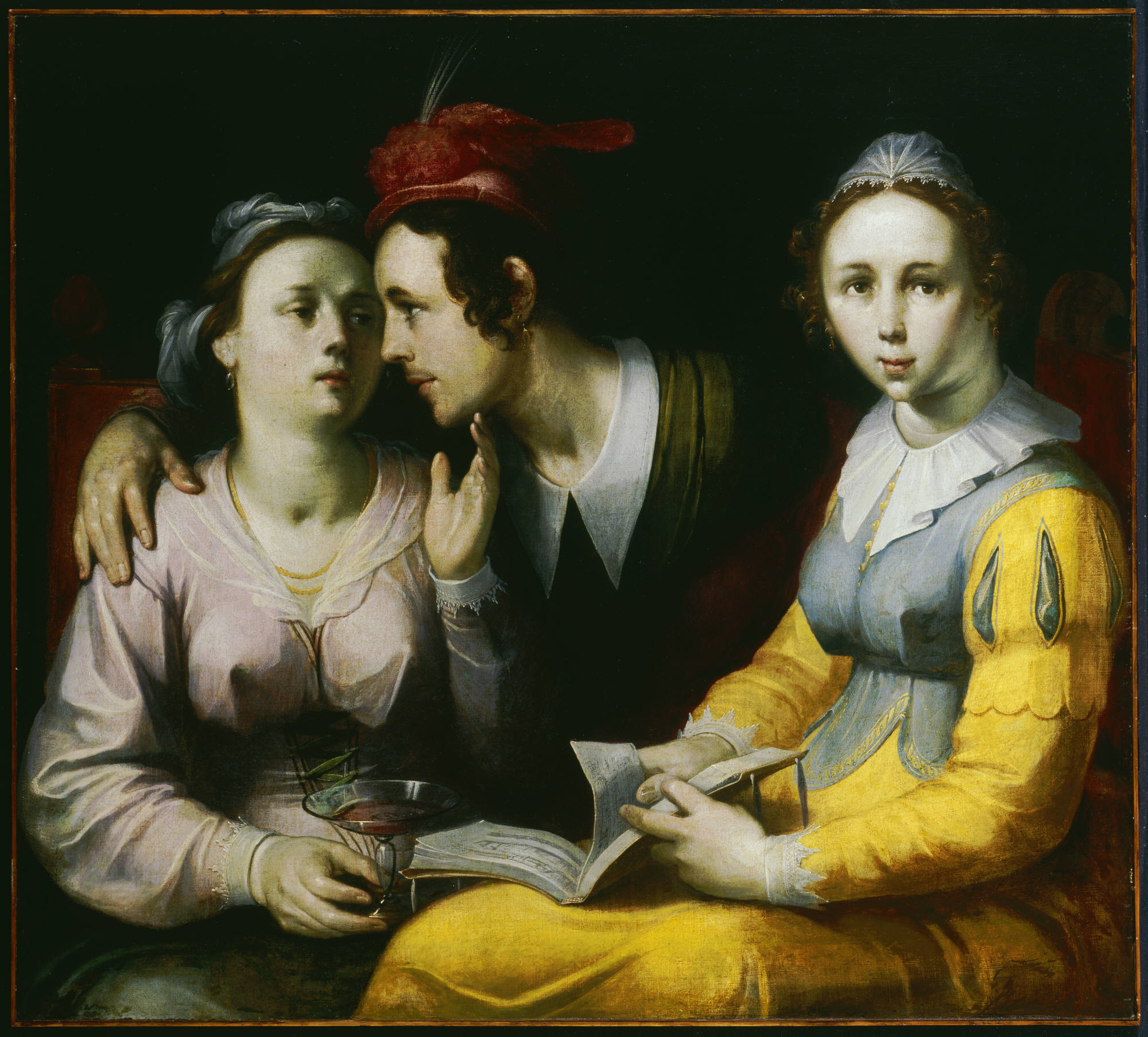 Catalogue Entry: Cornelis Cornelisz. van Haarlem portrays a simple yet delicate temptation scene. The gentleman is poised to embrace the drunken woman on the left. We, too, are offered the lure of wine, women, and song, as his companion’s glass tips precariously forward. The woman on the right turns to us, a songbook in her lap. Despite the moral dubiousness of the scene, Cornelisz. renders the balanced half-length figures in elegant curves silhouetted against a mysteriously dark interior. The painting bears witness to a change in the artist’s style following the return of his fellow Haarlem painter Hendrik Goltzius from Italy. Cornelisz. eschews the complexities of his earlier works in favor of a few large-scale figures set in a dark, shallow space reminiscent of Caravaggio’s innovations. This painting’s pastel tones and the figures’ egg-shaped heads, however, are far from the realism of the Dutch followers of Caravaggio. Cornelisz.’s simple, elegant composition dignifies and refines a moralizing subject based on the wasted youth of the Prodigal Son. Gallery Label: Cornelis Cornelisz.’s painting shows a scene of temptation, in which the attractions of music, wine, and love seduce his figures into indulgence in the pleasures of the senses. Though the subject is explicitly secular, the artist’s treatment of the male figure in particular recalls contemporary artistic representations of the Prodigal Son, suggesting that an everyday interaction might take on moral dimensions of biblical proportions. The woman whom he courts presents another negative example, as her distant expression and loose grip on the wine glass betray her intoxicated state. As the couple boldly reciprocates romantic advances and sustains longing looks, the woman with the songbook engages the viewer directly with her own gaze. This motif might be taken to implicate the viewer as a participant in the merrymaking, unsettling the usual borders between the actual world and the painted one.